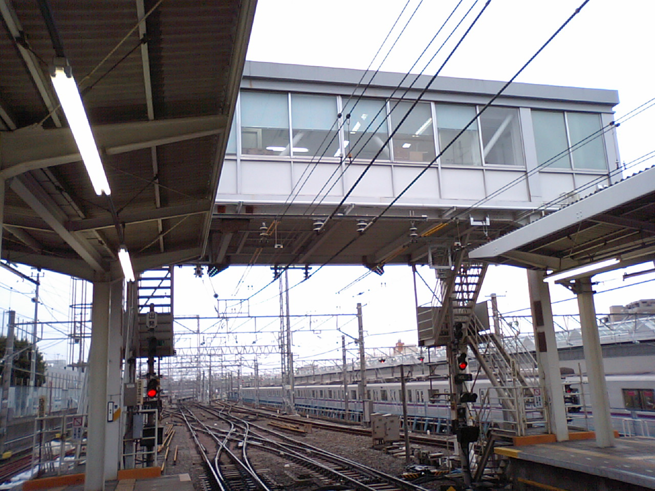 Signal Box of Saginuma Station.